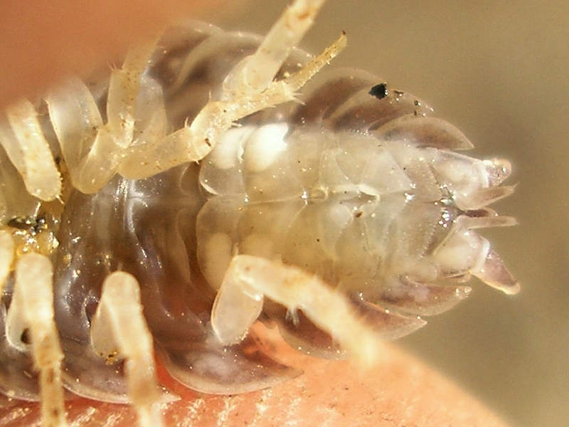 Porcellio laevisLocation: Netherlands